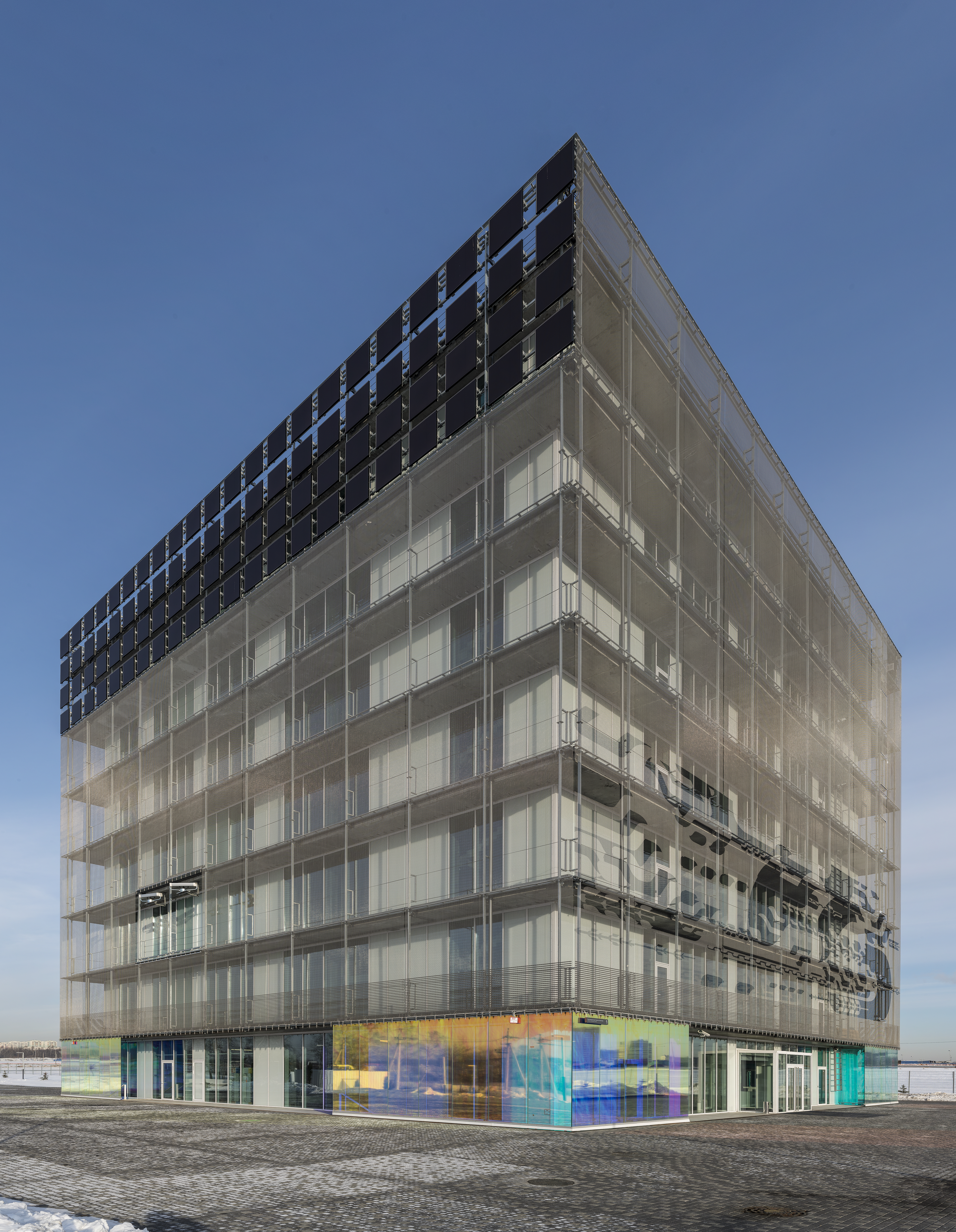 HYPERCUBE Skolokovo